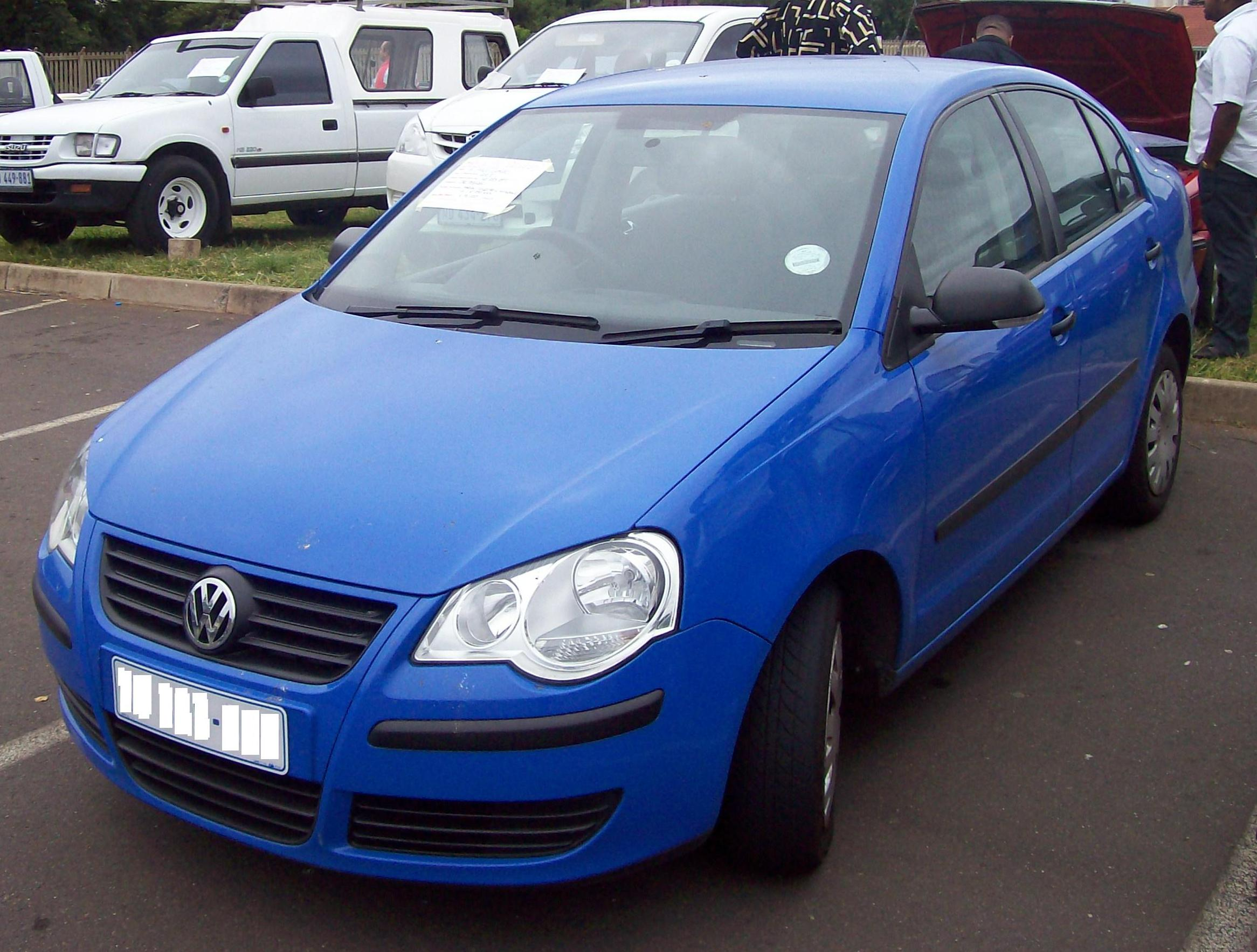 A South African 2006 Volkswagen Polo Classic Trendline in Jazz Blue Pearl. Front view